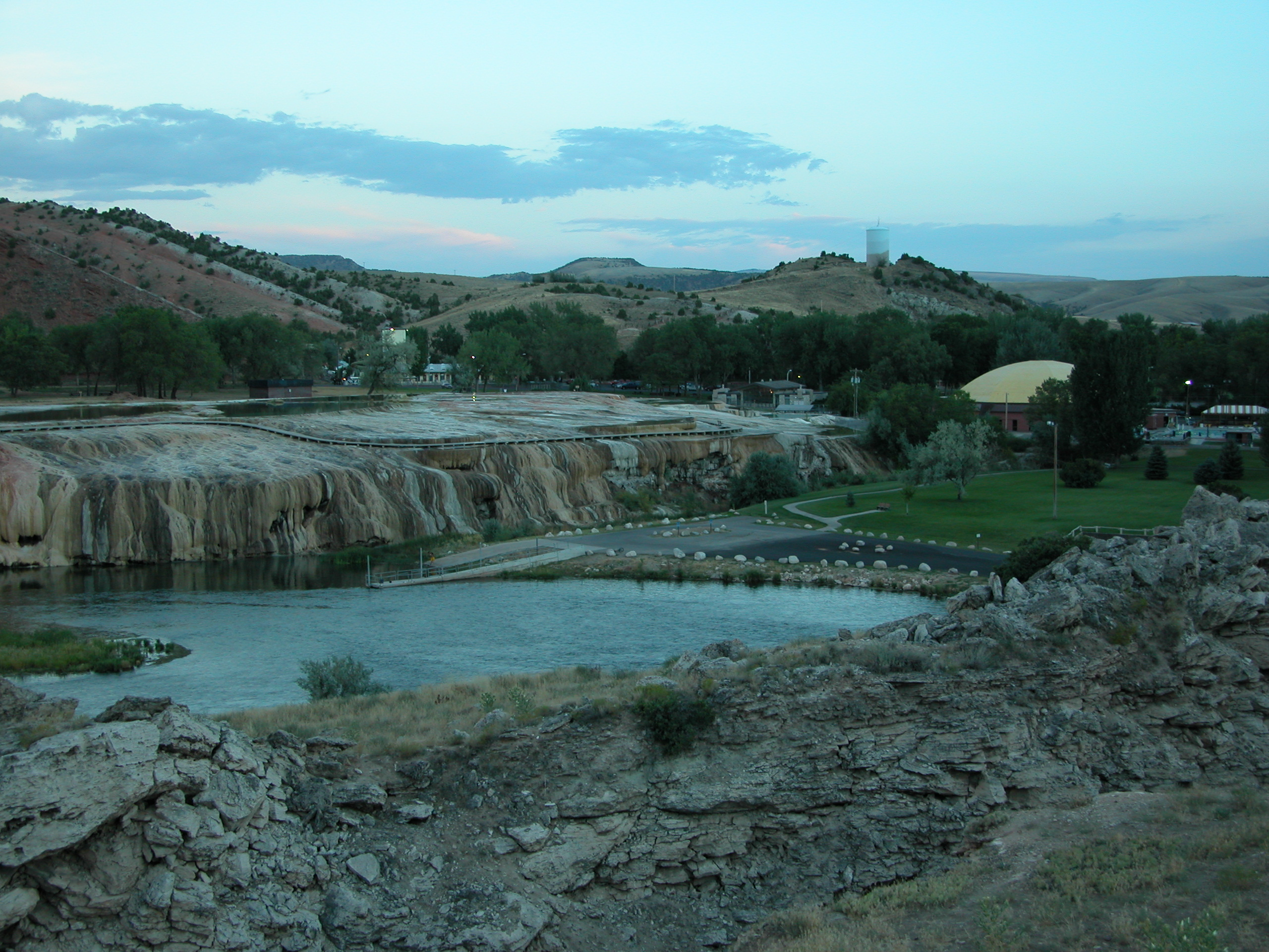 Hot Springs State Park viewed from across Big Horn River in the evening.